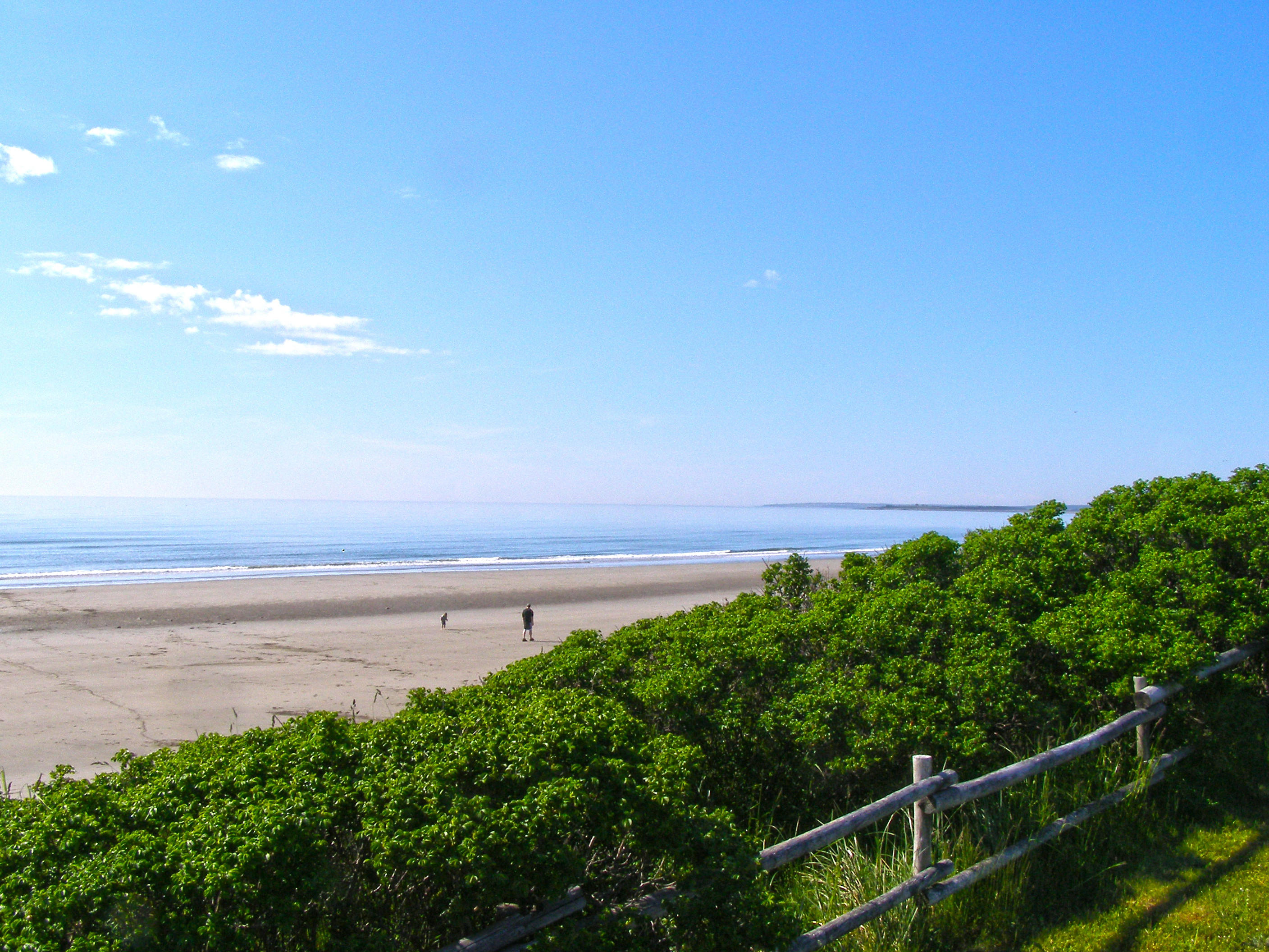 This is a shot of Port Maitland Beach at the beginning of July.